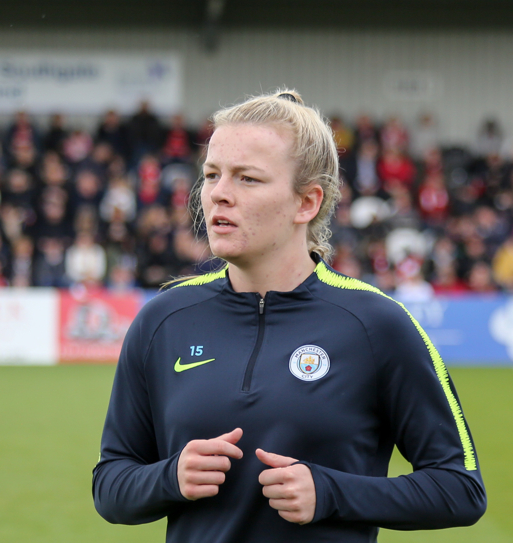 2018–19 FA WSL: Arsenal WFC v Manchester City WFC, 11 May 2019 – Lauren Hemp of Manchester City before the start of the match